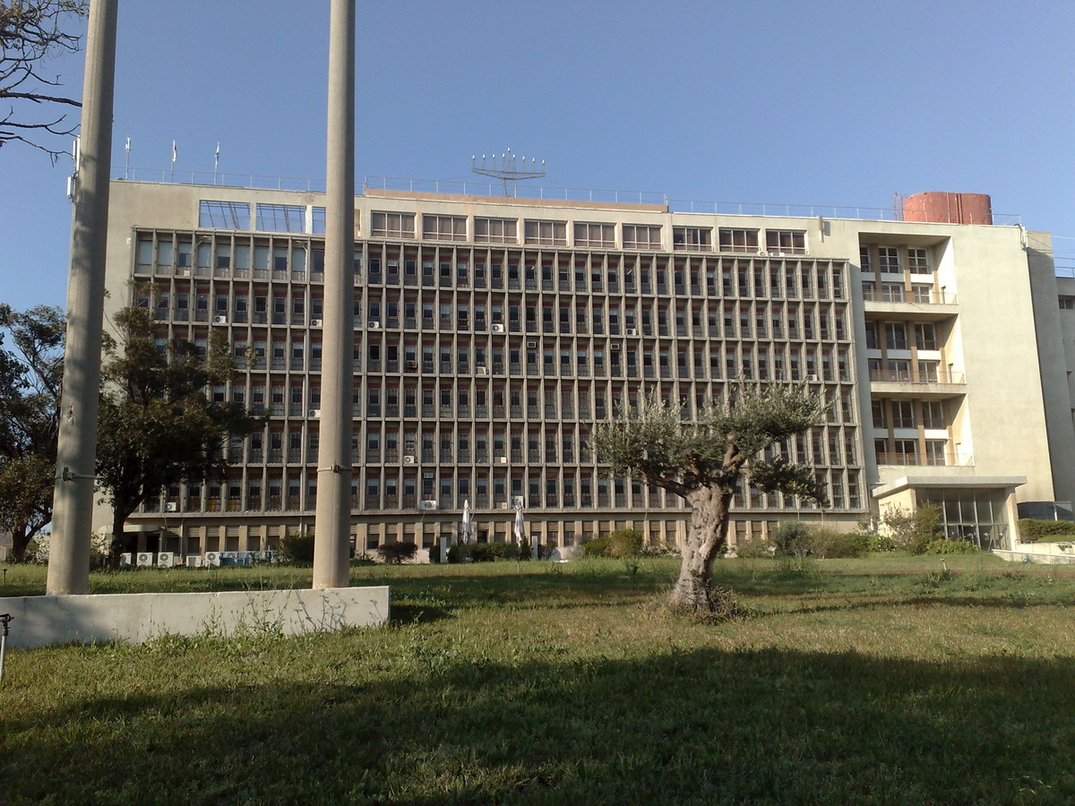 The Histadrut Building, "Beit Havad Hapoel", Arlozorov Street, Tel Aviv-Yaffo